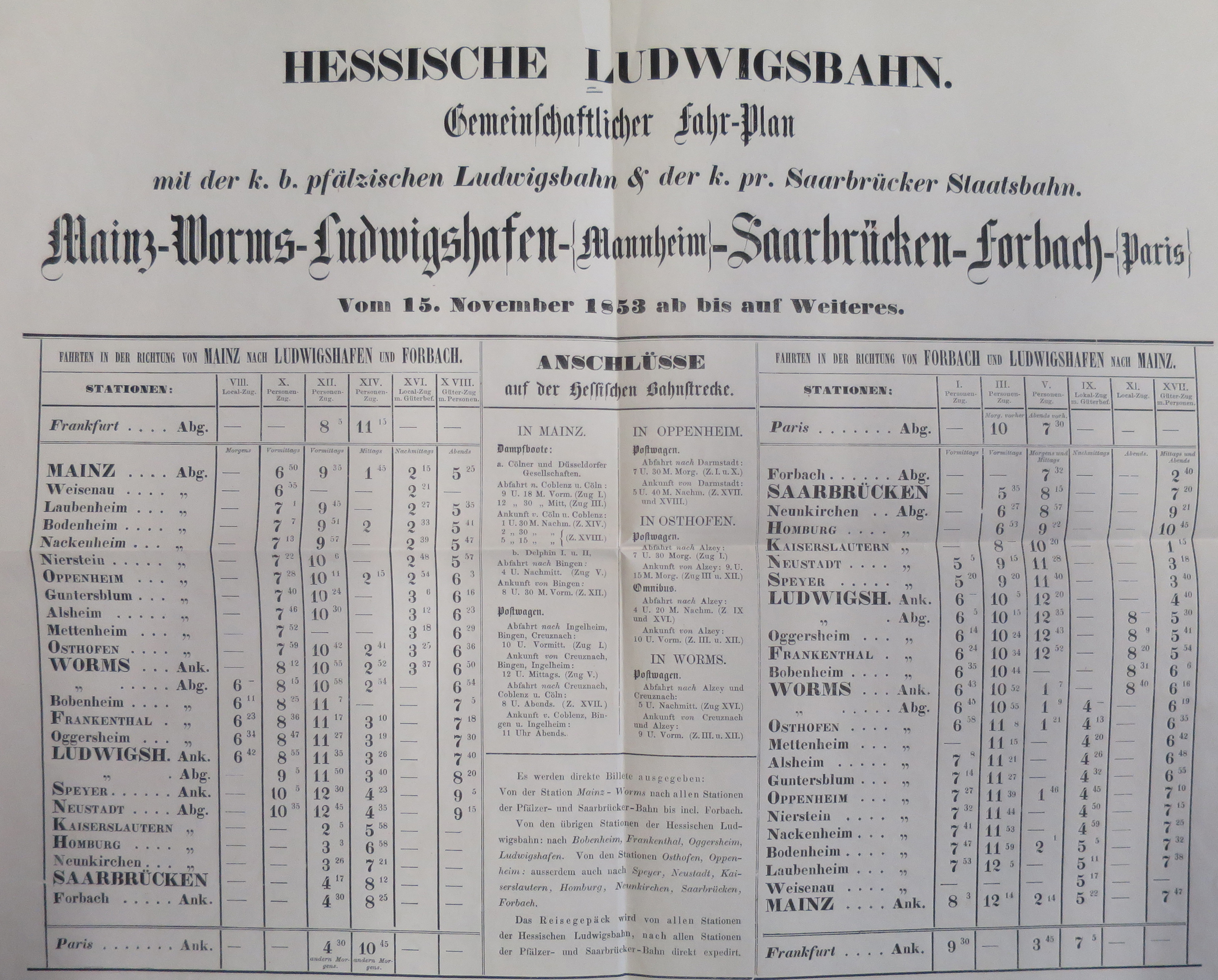 Timetable of Hessische Ludwigsbahn (Mainz-Worms) and connections as of 15th of Nov. 1853